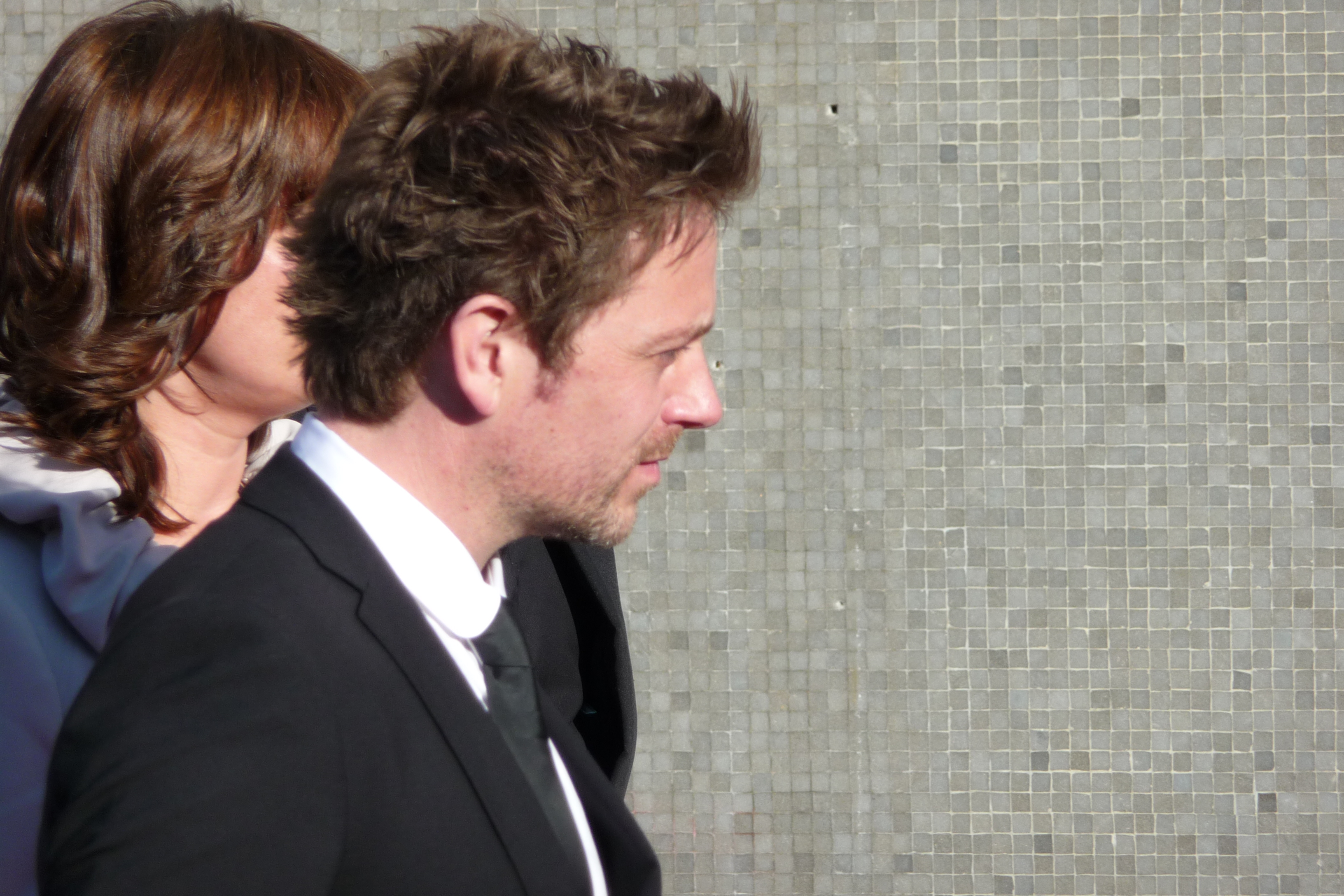 Dominic Power arriving at the 2009 BAFTA awards.